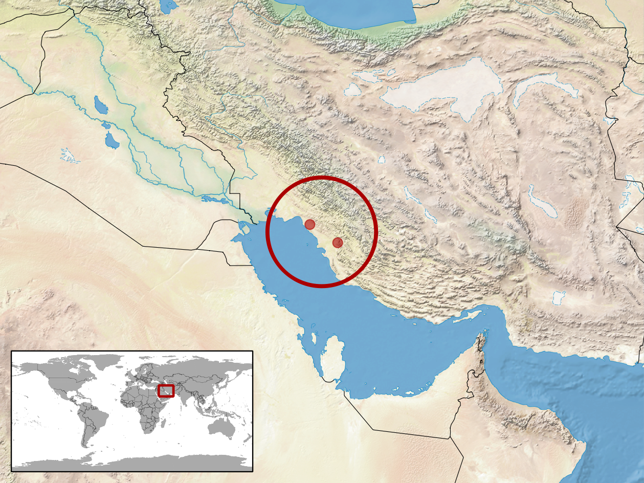 geographic distribution of Cyrtopodion gastrophole (Native: Iran, Islamic Republic of)